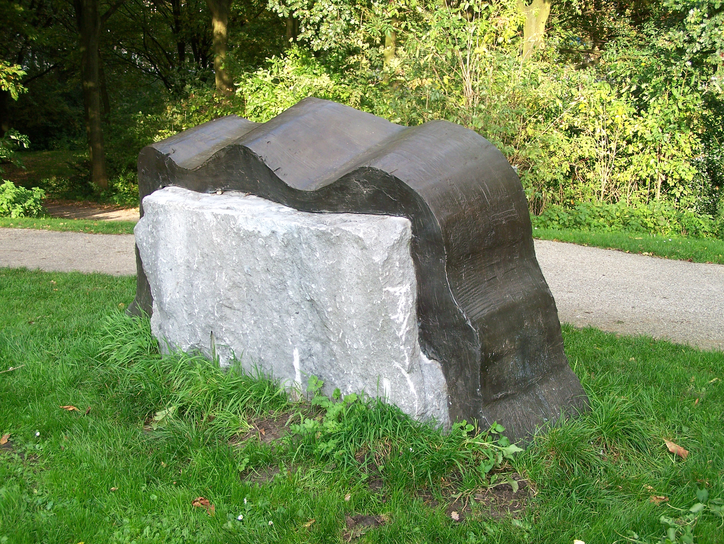 Sculpture "Maria Planeta" made by Evert van Kooten Niekerk in 1987. Placed at Park Vechtzoom in Utrecht in 1988 The Netherlands.